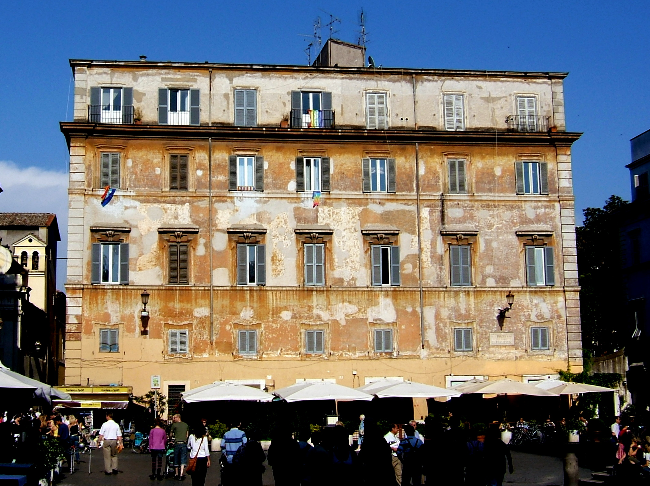 The Palazzo Pizzirani at Piazza di Santa Maria in Trastevere, Rome, Italy.